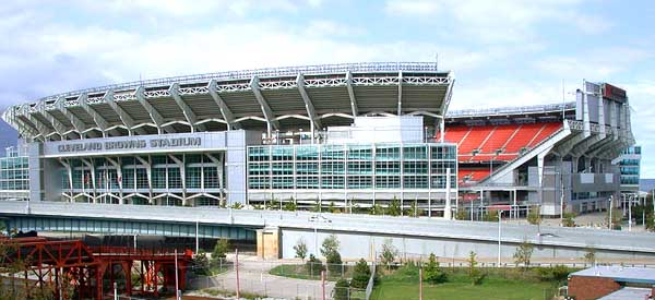 Cleveland Browns Stadium in Cleveland, Ohio (taken Sept. 26, 2004) © 2004 Matthew Trump 23:32, 3 November 2004 . . Decumanus . . 600×275 (71,352 bytes)